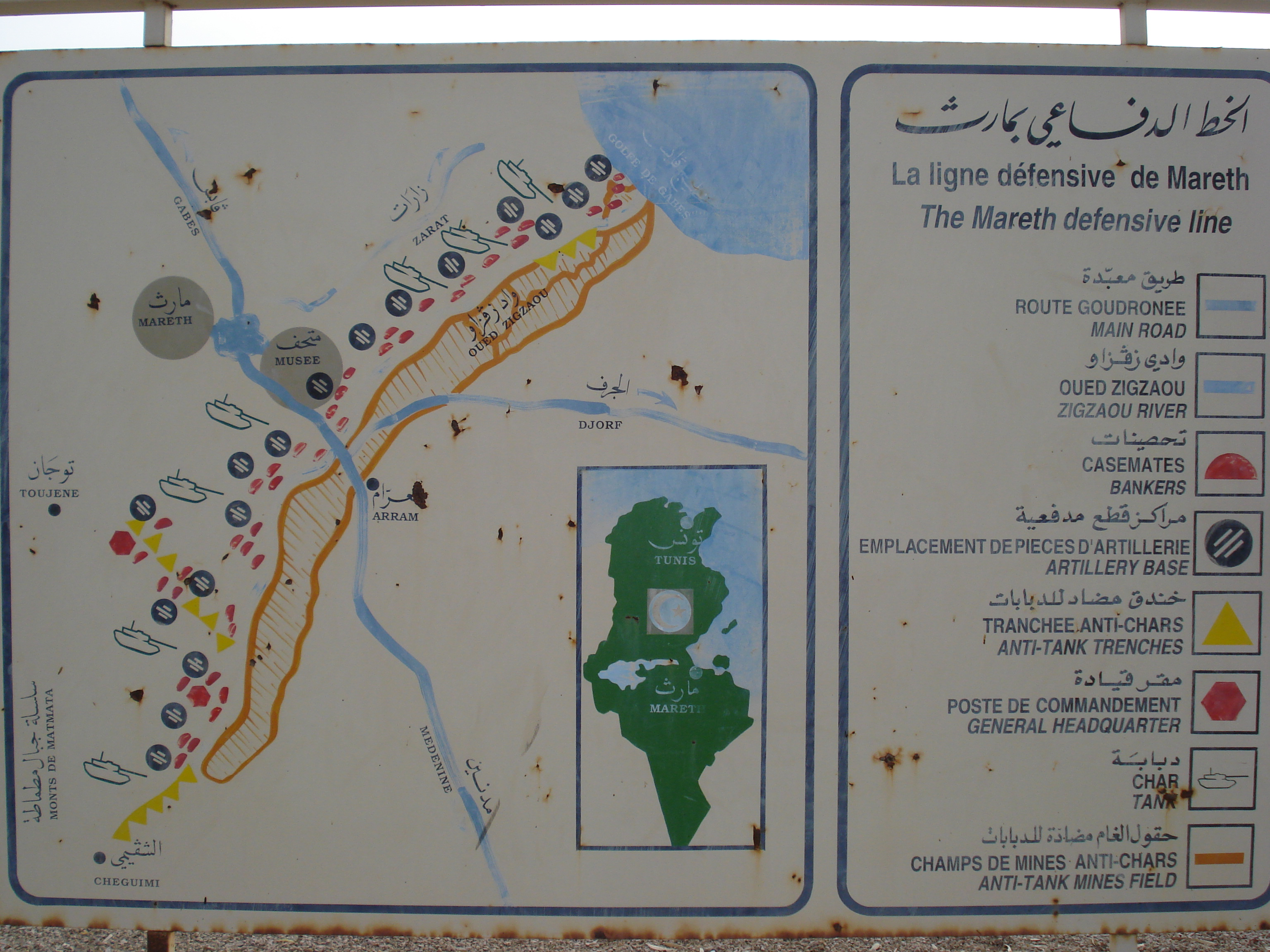 Mareth Line Panel near the Military Museum of Mareth Line in Tunisia